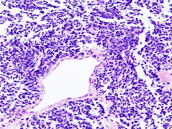 Histopathologic image of small cell carcinoma of the lung. CT-guided core needle biopsy. The same lesion as shown in a filename "Lung_small_cell_carcinoma_(1)_by_core_needle_biopsy.jpg". H & E stain.